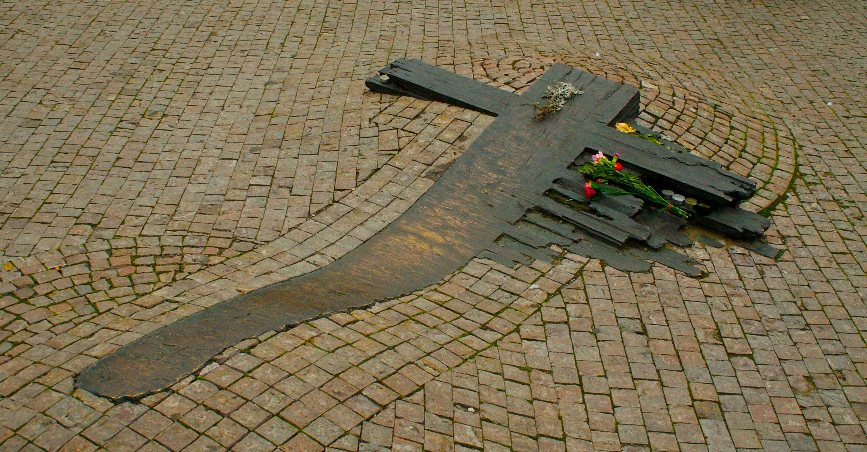 Image taken and contributed by Autocracy.